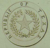 Seal of the Republic of Texas